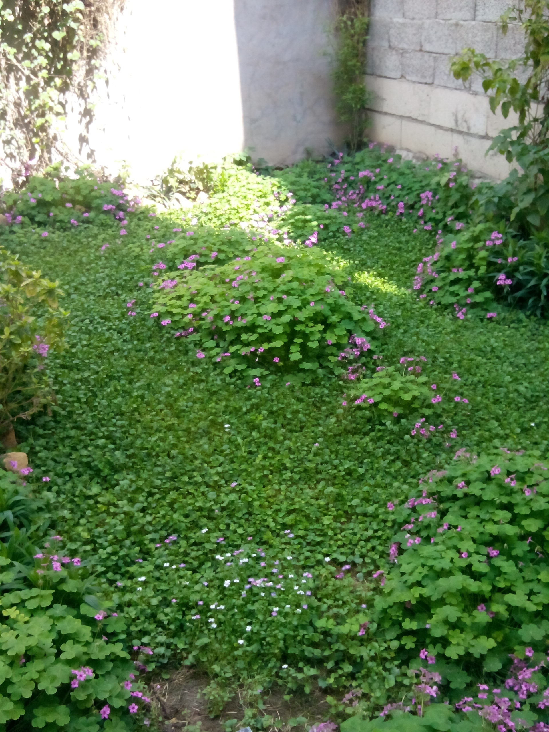 flowers in the garden, in Baghdad